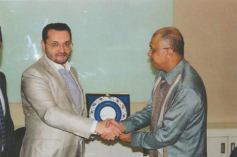 Director General of Salamworld